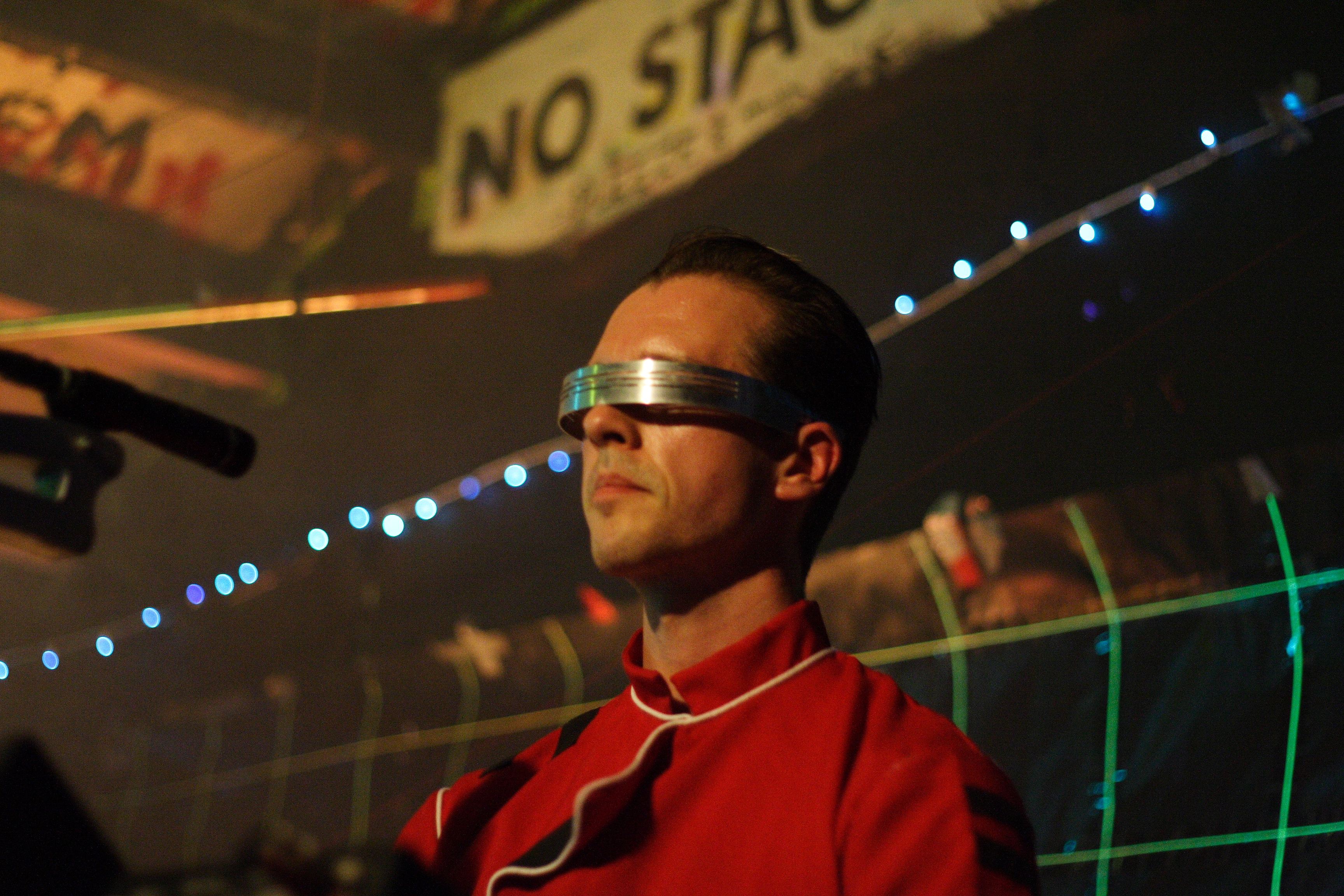 Musical band The Phenomenauts - keyboard player Professor Greg Arius playing at 924 Gilman in 2009. Arius sports an inverted-color band uniform and metallic visor. Photo by Amy Klimt.